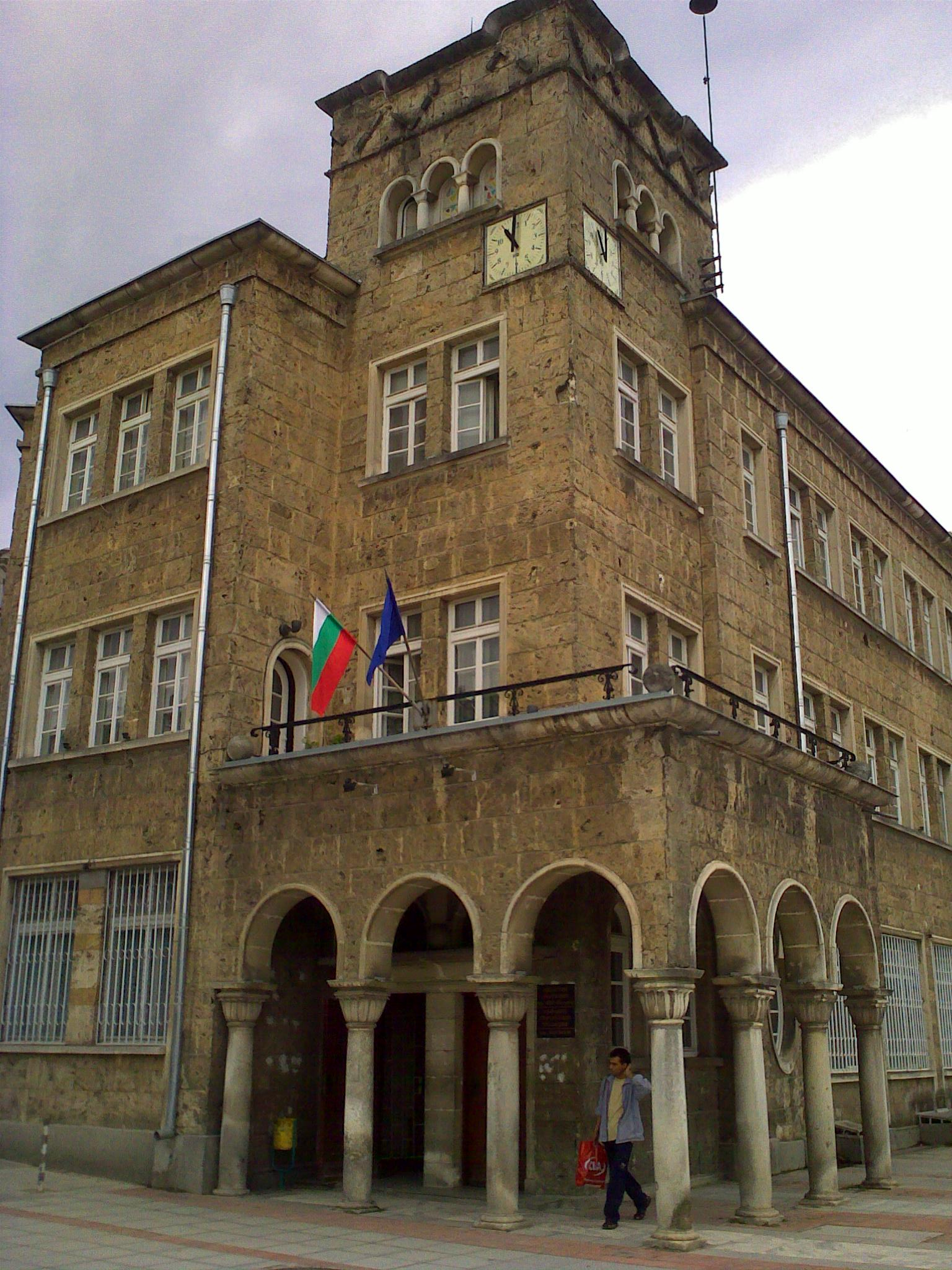 Police Office in Shumen